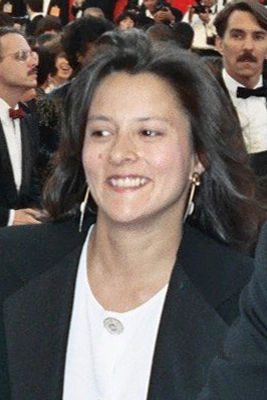 Marsha Garces Williams on the red carpet at the at the 61st Annual Academy Awards, 1989. NOTE: Permission granted to copy, publish, broadcast or post any of my photos, but please credit "photo by Alan Light" if you can. Thanks. Scanned from the original 35MM film negative.